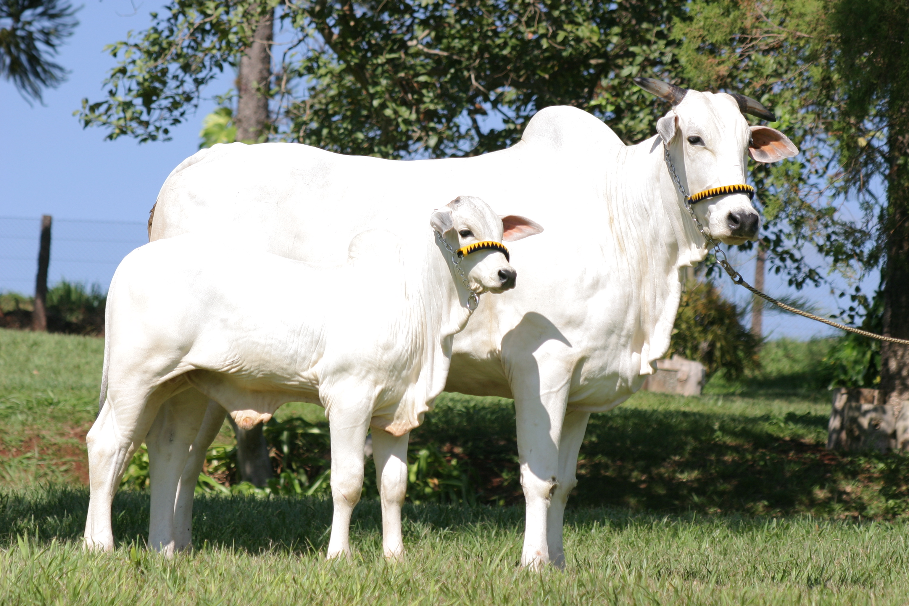 Cattle NELORE. The brazilian popular cattle. A good exemple of a Cow with her calf. A male calf with 2 months old, Batuque do R.I.